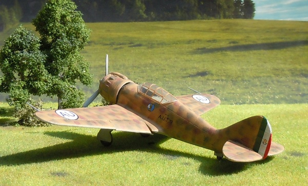 Model of the Aeronautica Umbra AUT.18. More pics of the same are available on